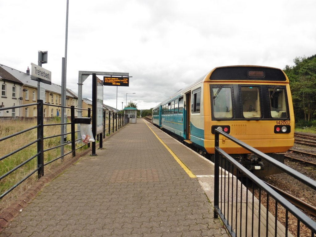 Treherbert railway station